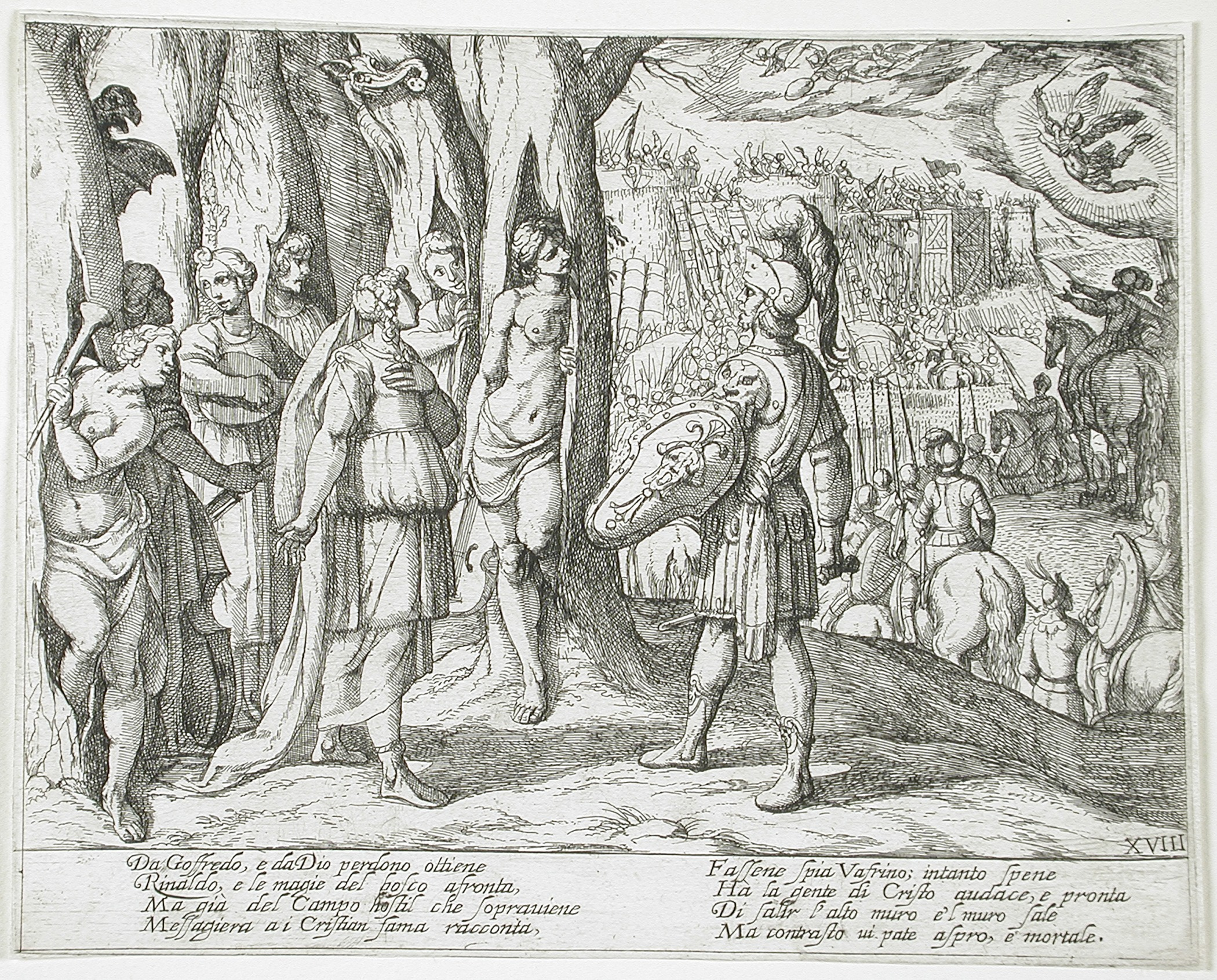 Italy, 16th century Series: Jerusalem Delivered II by Tasso Prints; etchings Etching Los Angeles County Fund (65.37.81) Prints and Drawings